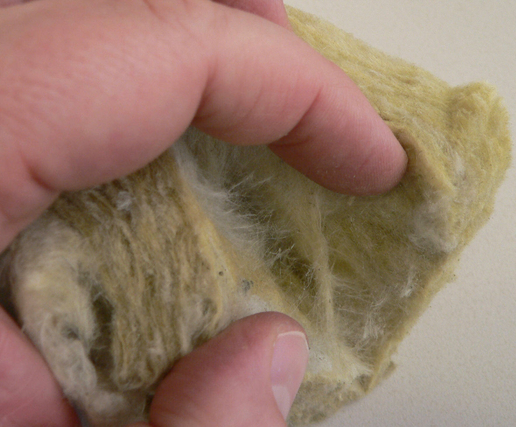 4# Rockwool